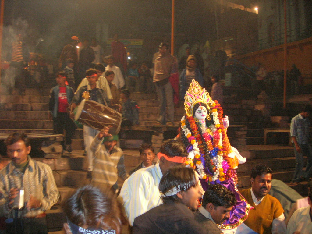 Saraswati festival on Dasashwamedh Ghat in Varanasi, India